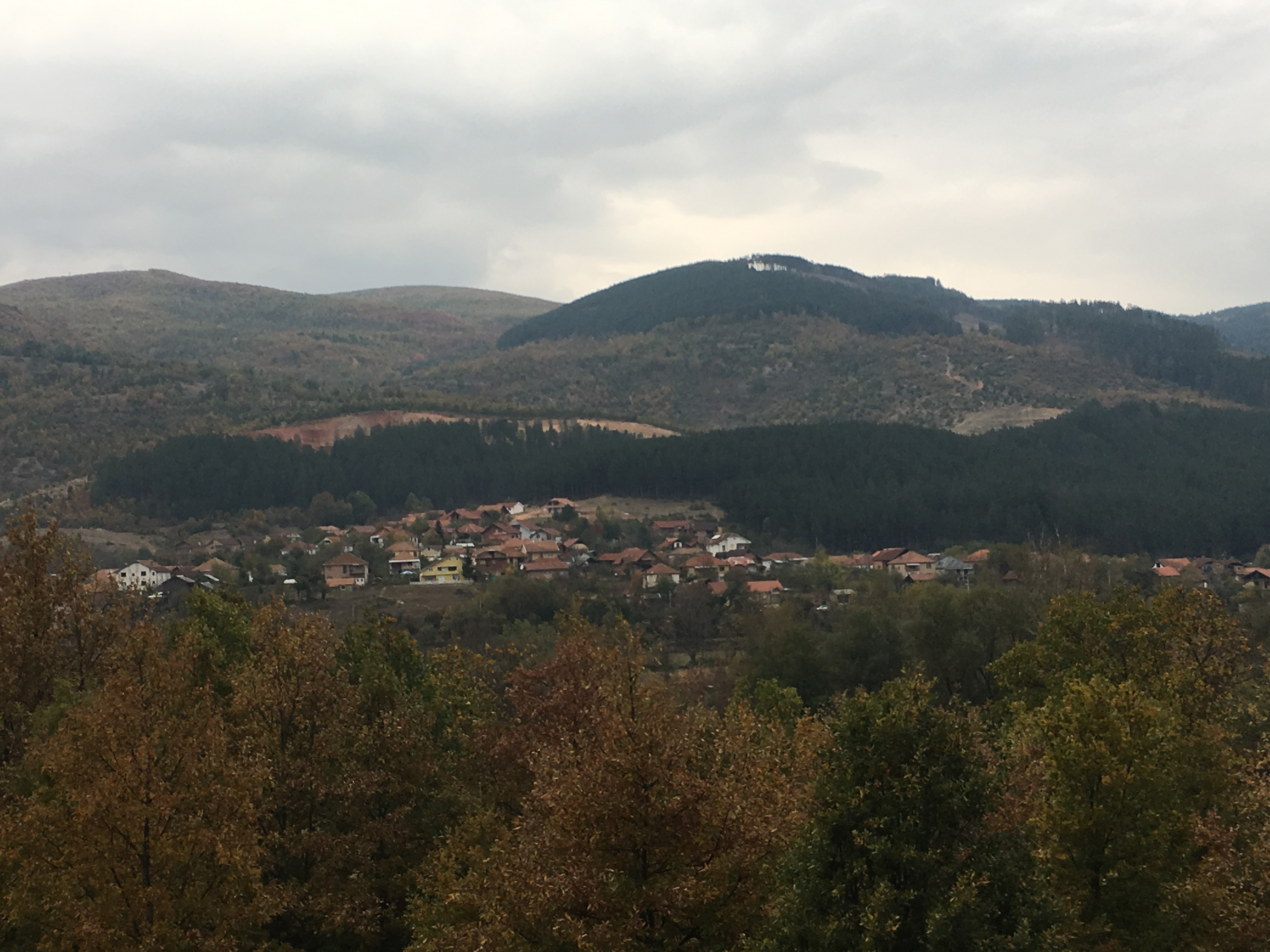 Wikiexpedition to Kopačka